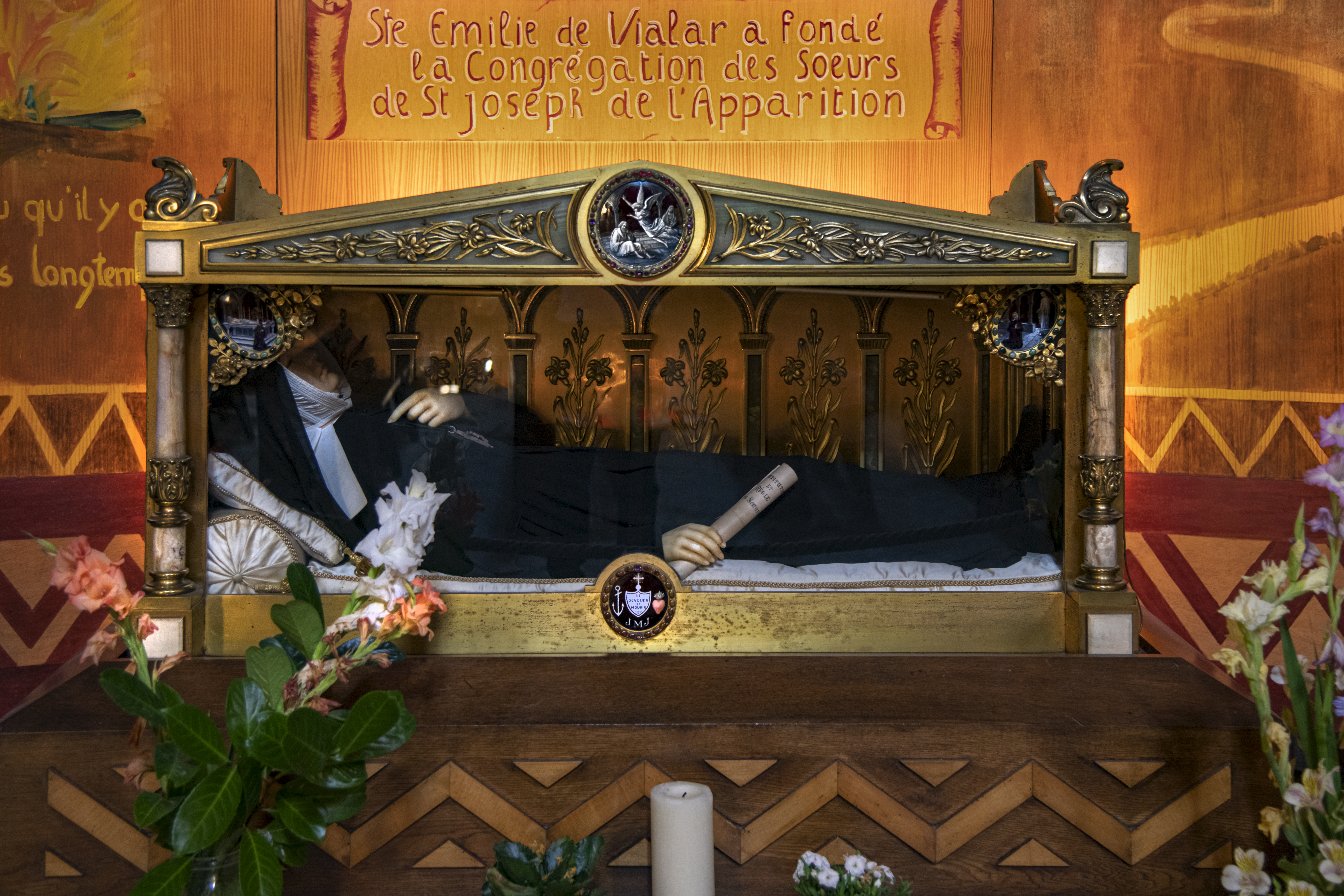 Chasse (casket) of Saint Emilia of Vialar on the Eglise Saint-Pierre Gaillac in the Tarn department